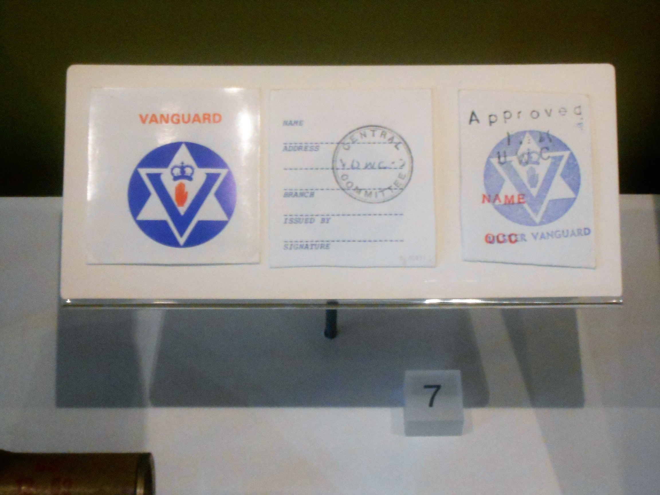 Pass card issued by the Ulster Workers' Council during their 1974 strike. It is exhibited at the Ulster Museum Belfast.